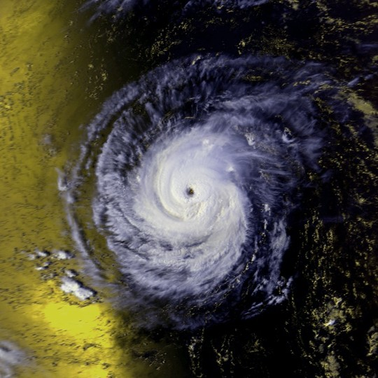 Typhoon Uleki on September 8 at approximately 0328 UTC. This image was produced from data from NOAA-9, provided by NOAA.